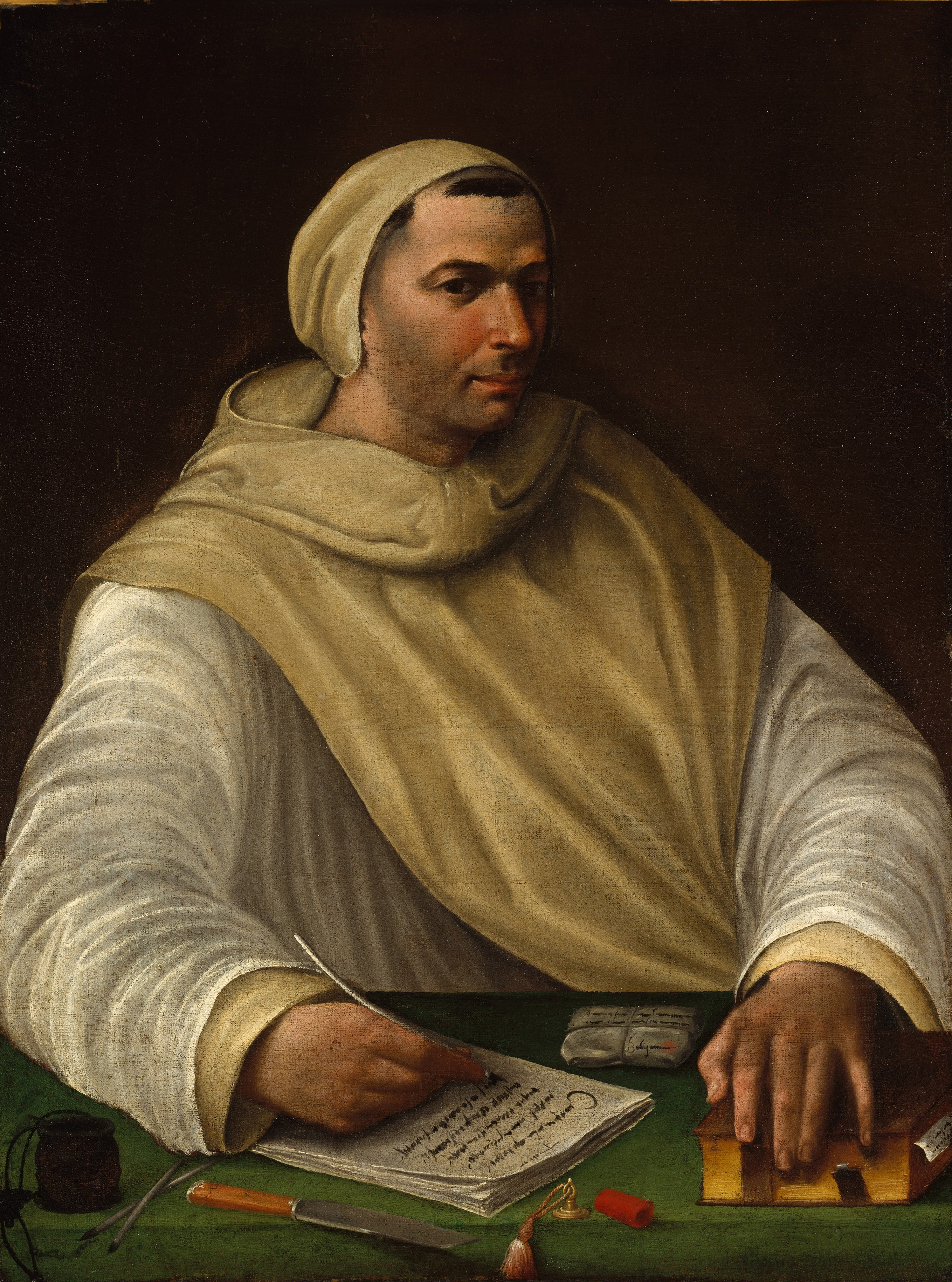 Portrait of an Olivetan Monk